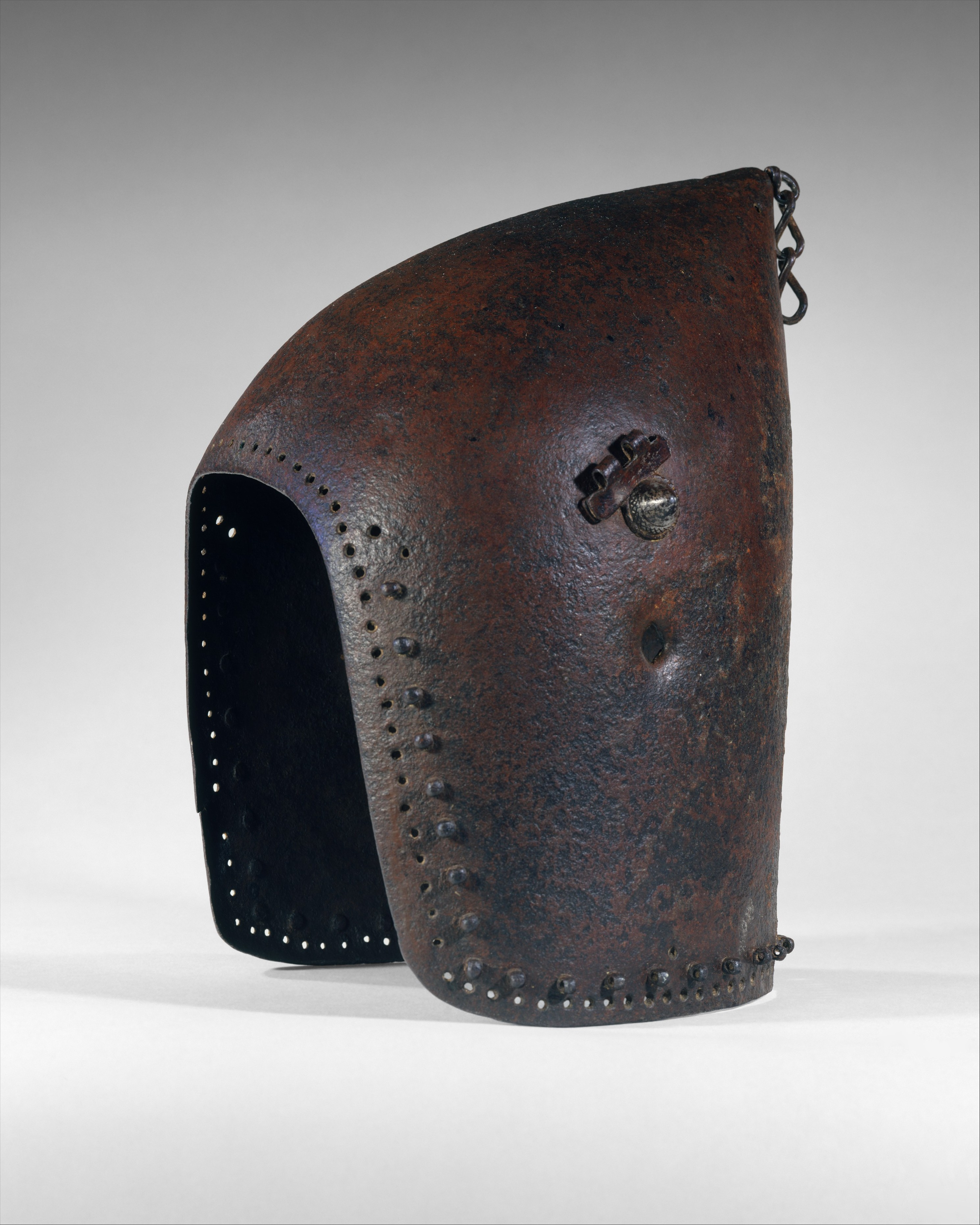 possibly French; Bascinet; Helmets